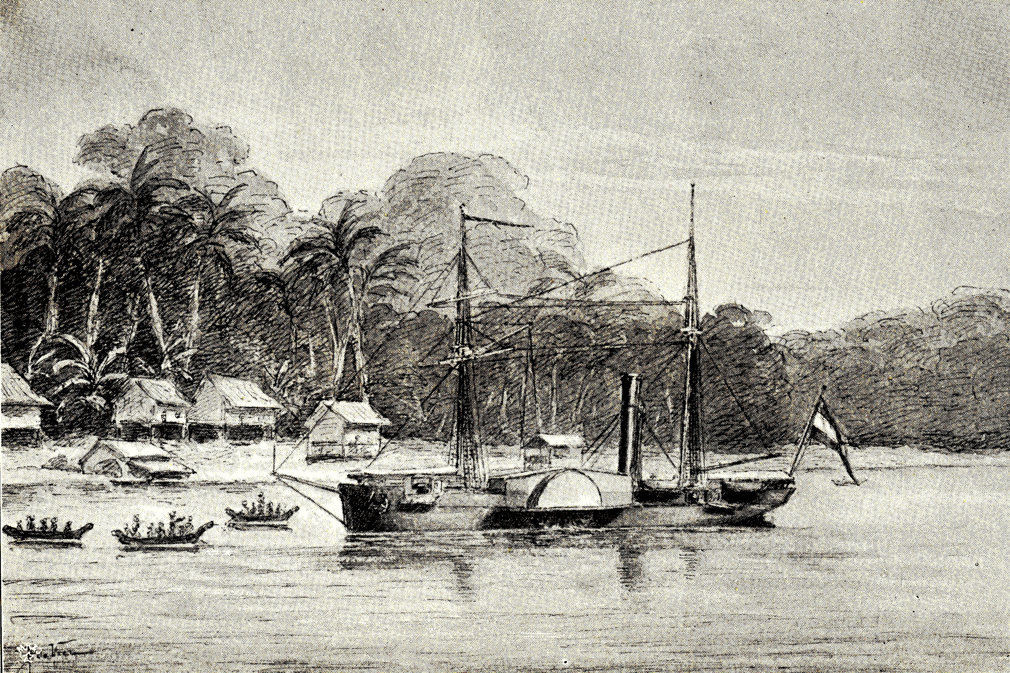 De Onrust bij Lontontoeor